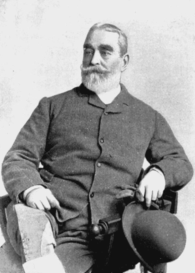 Sir Francis Burnand, an editor of Punch. The photograph is credited there as "From a photograph by F.T. Palmer, Ramsgate"